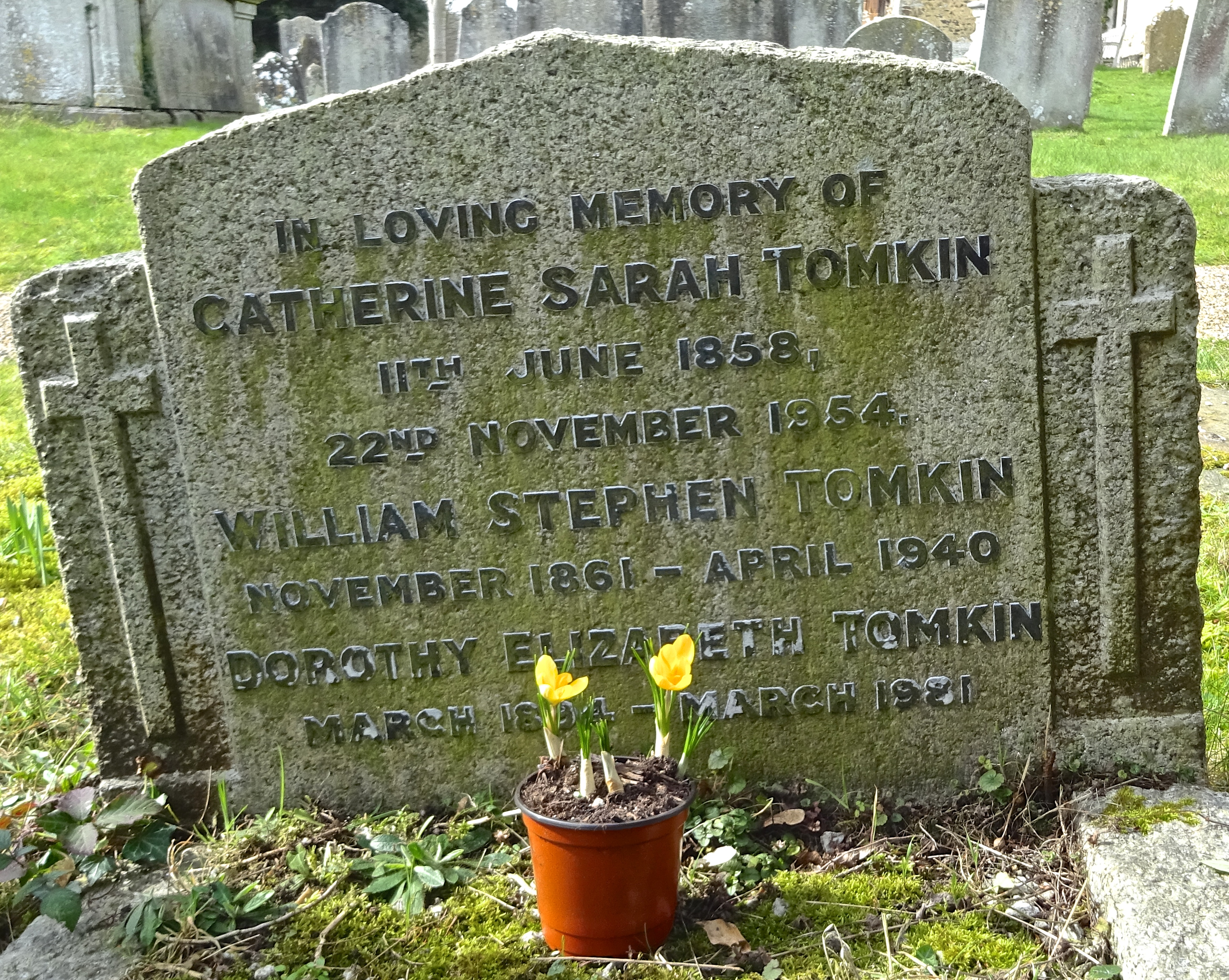 The grave of William Stephen Tomkin, his wife Catherine and eldest daughter Dorothy at the churchyard, Ightham, Kent.